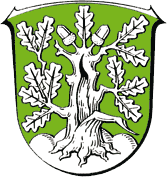 coat of arms ot the German municipality of Reinhardshagen